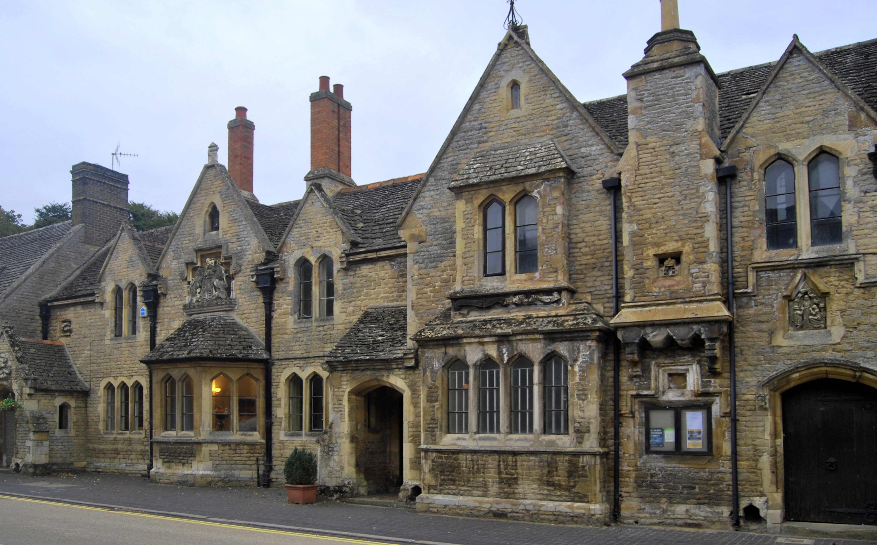 Old Post Office Buildings Thorney